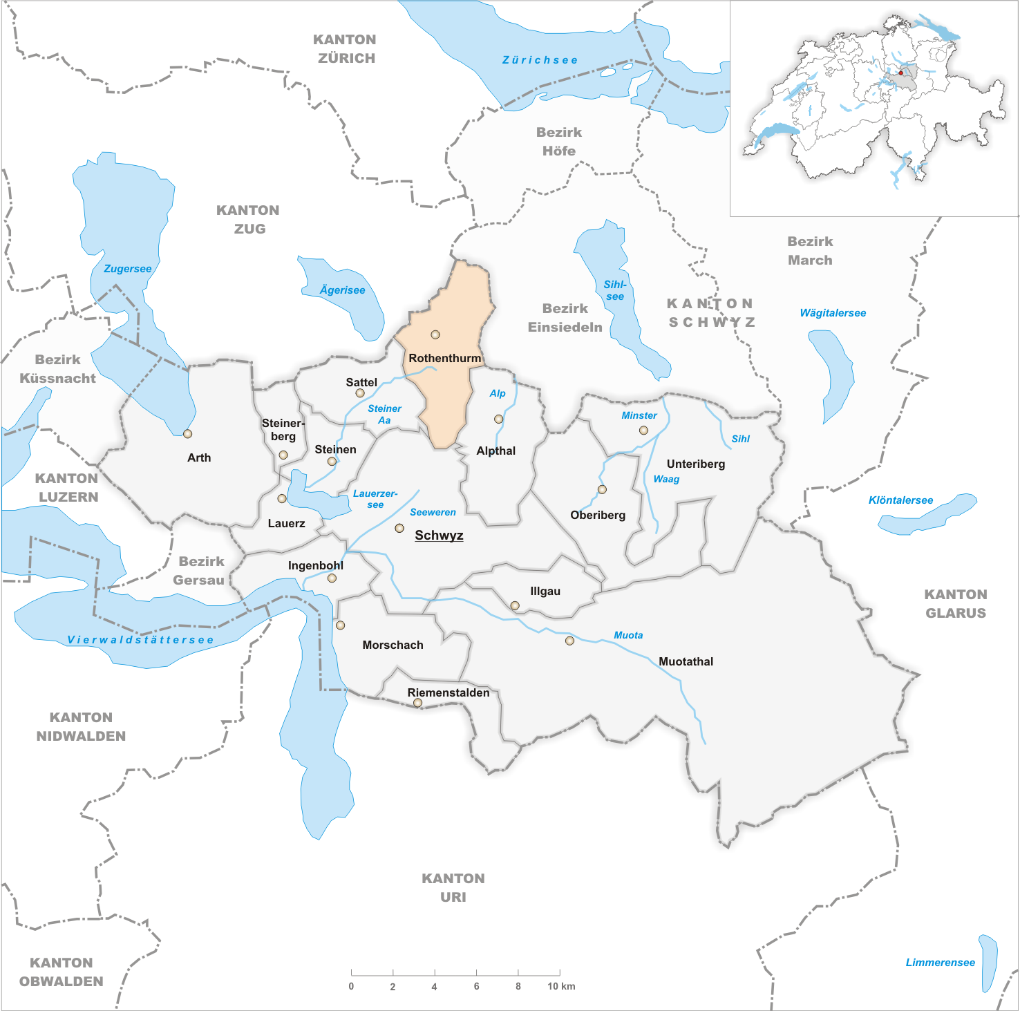 Municipality Rothenthurm